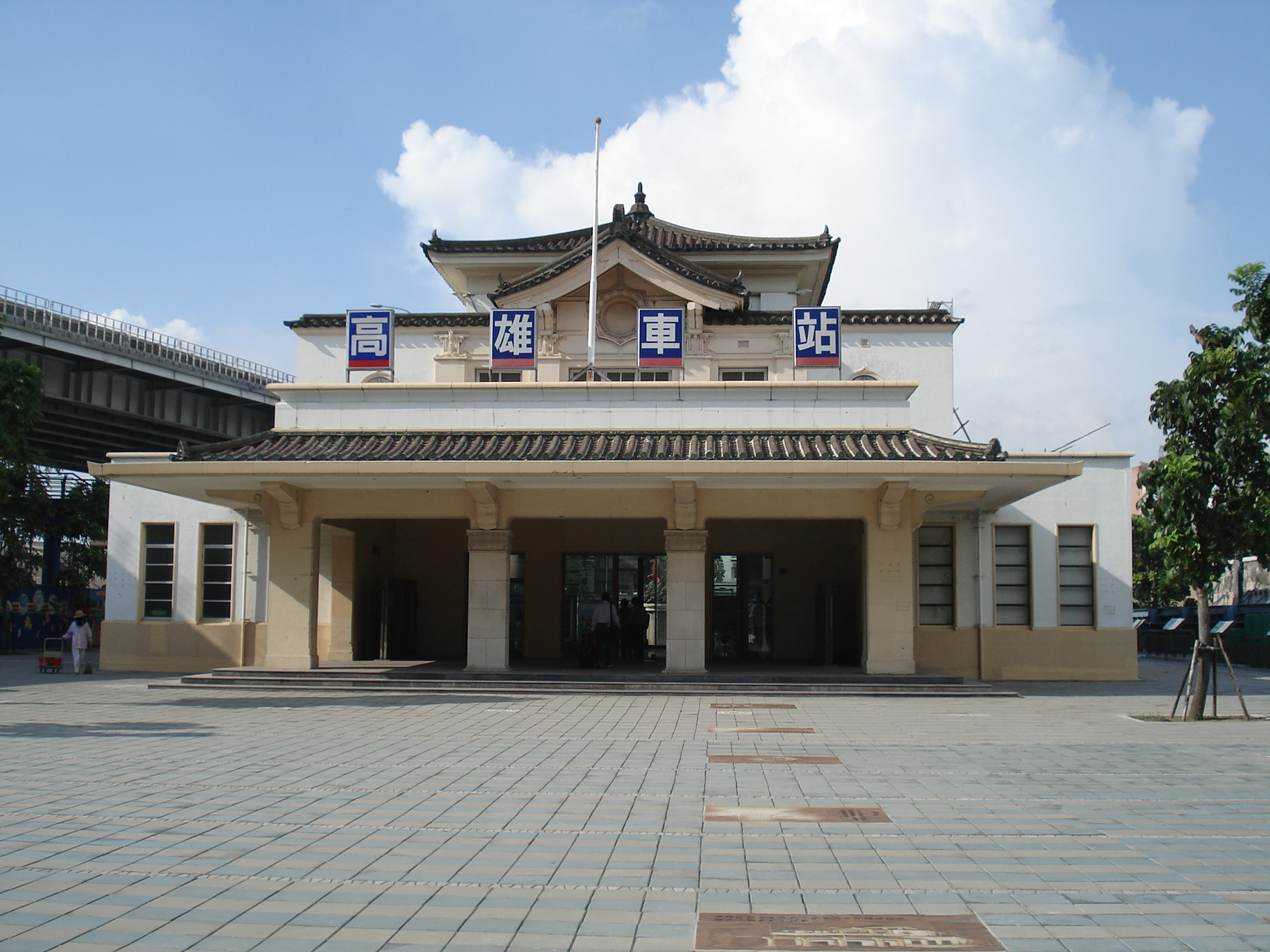 Gallery of Vision for Kaohsiung, also the old building of Kaohsiung Station of Taiwan Railway Administration in the past.